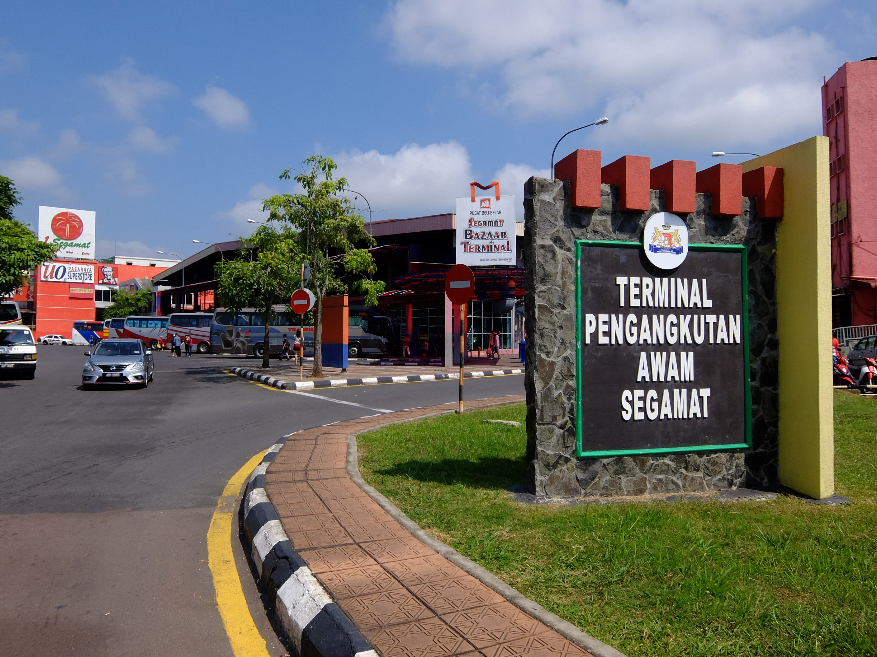 Segamat Public Transportation Terminal, Segamat, Johor, Malaysia